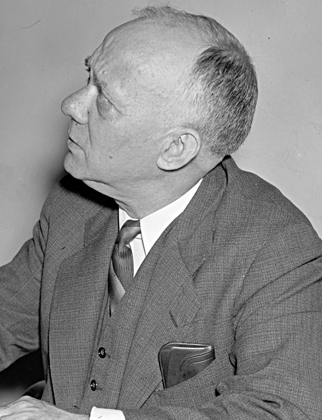 Vincent Luke Palmisano, US Representative from Maryland